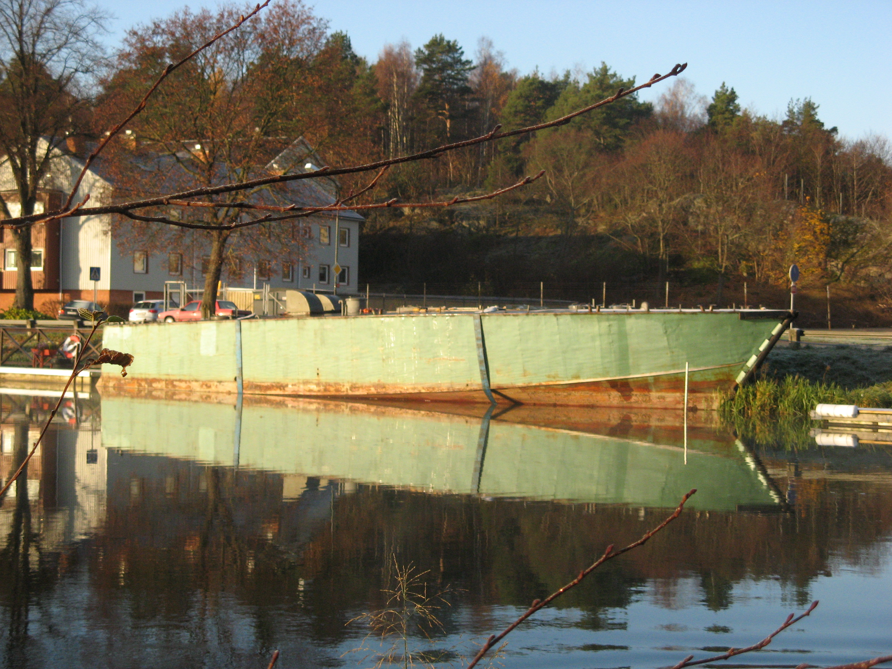 A Swedish former fast patrol craft.